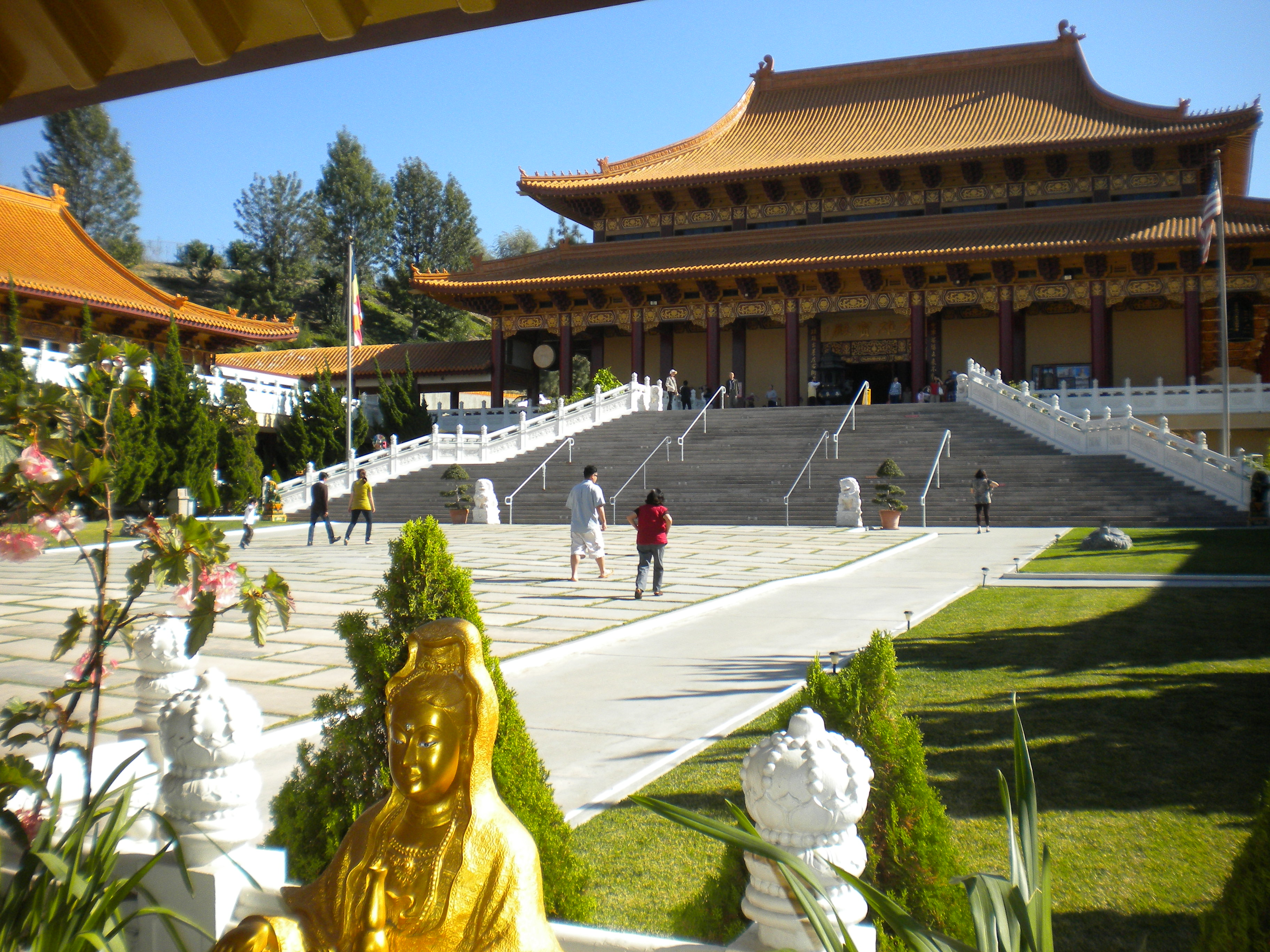 Buddhist Temple - largest in western hemisphere Hsi Lai Temple